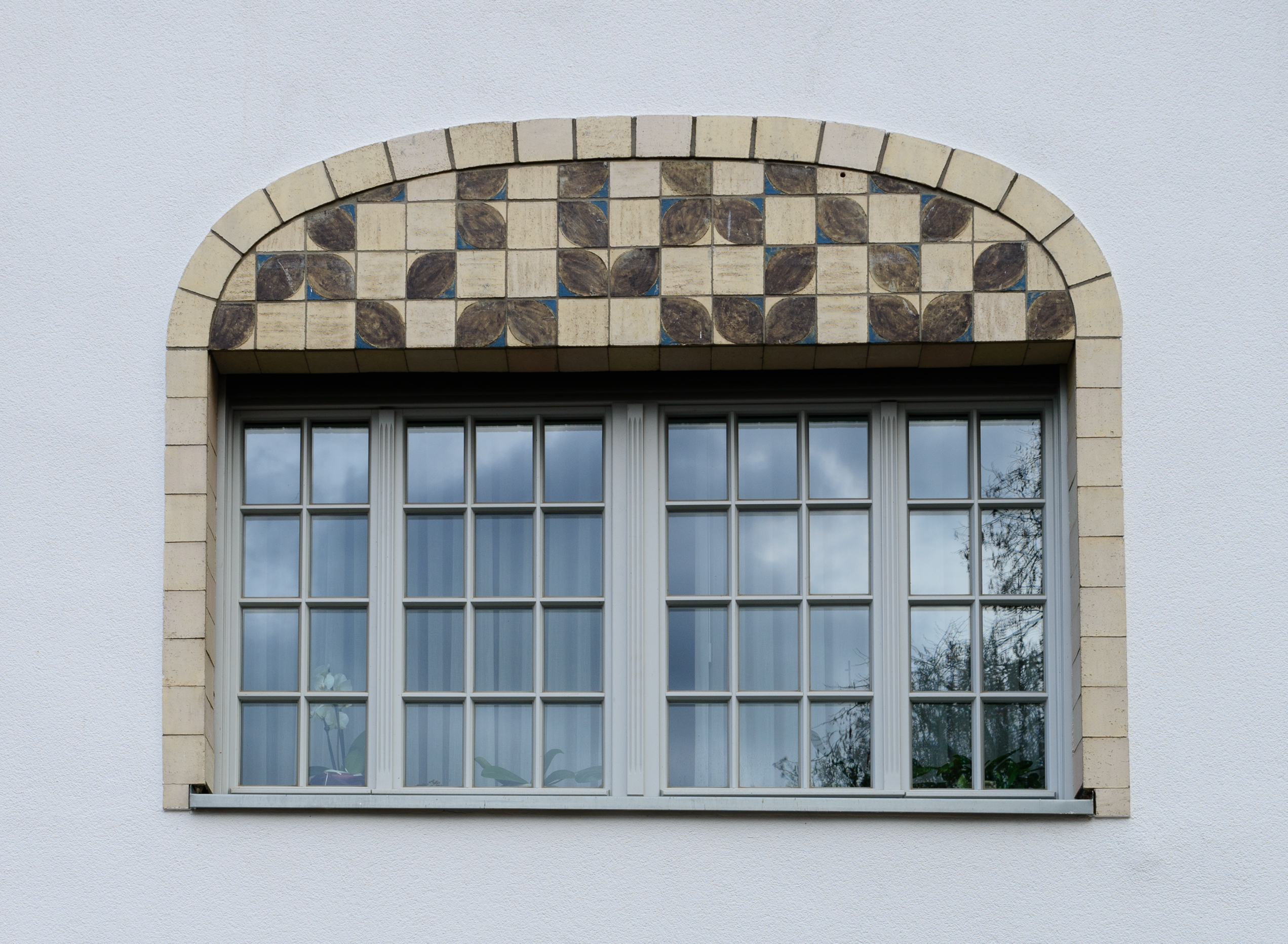 Residence of the bishop of Limburg (after rebuilding during the tenure of Franz-Peter Tebartz-van Elst).